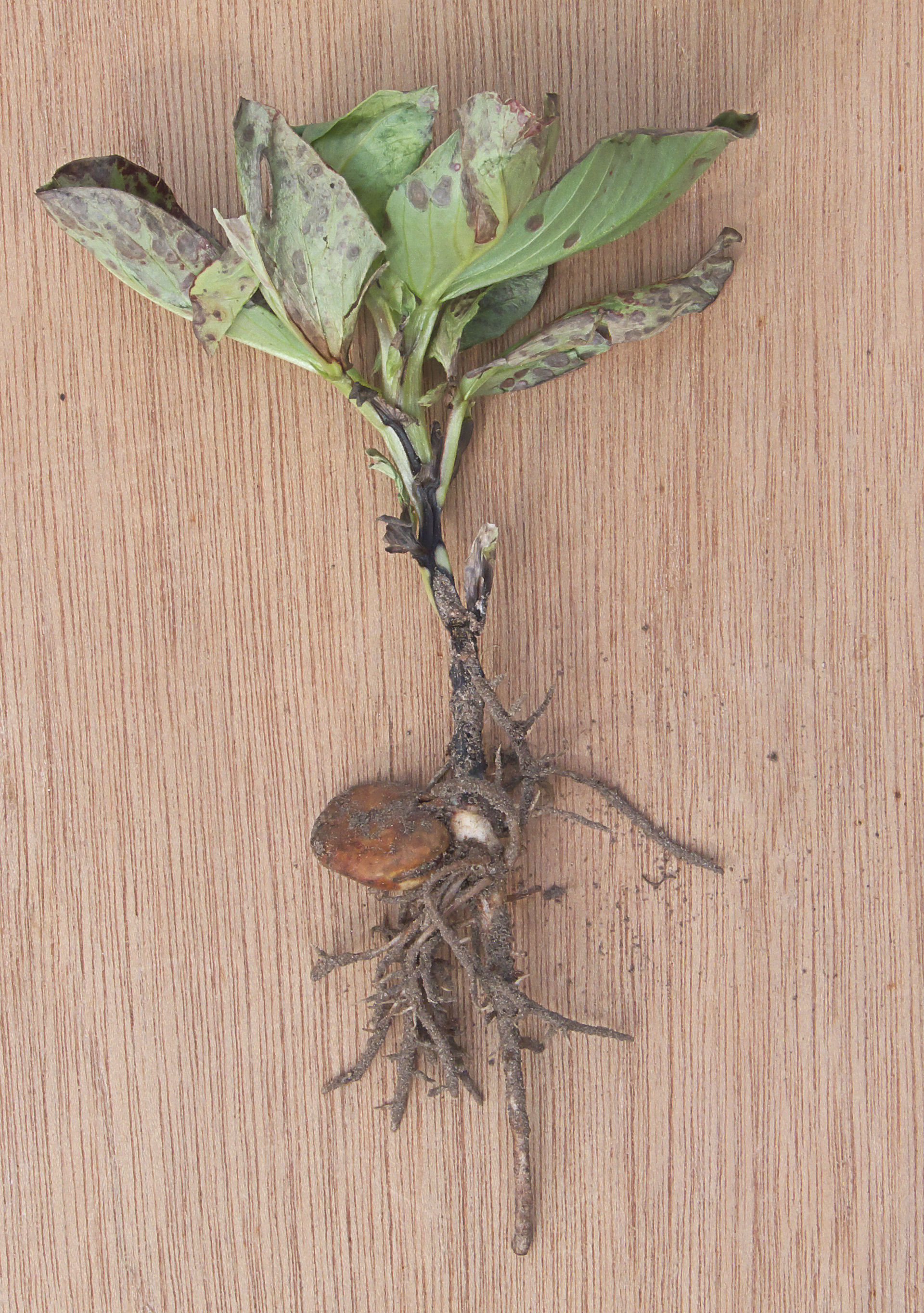 Vicia faba Cercospora zonata at Vicia faba